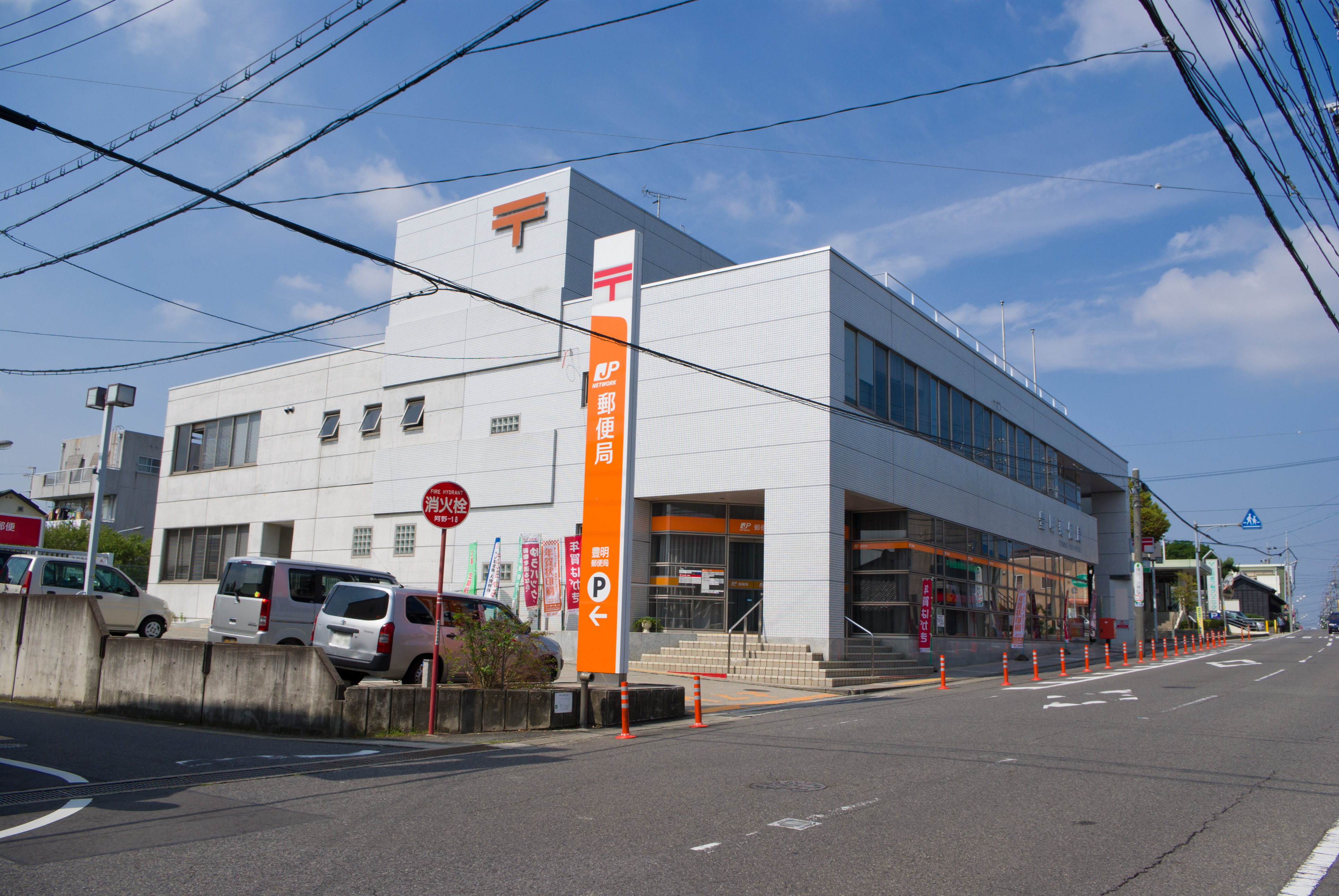 Toyoake Post Office in Toyoake, Aichi, Japan